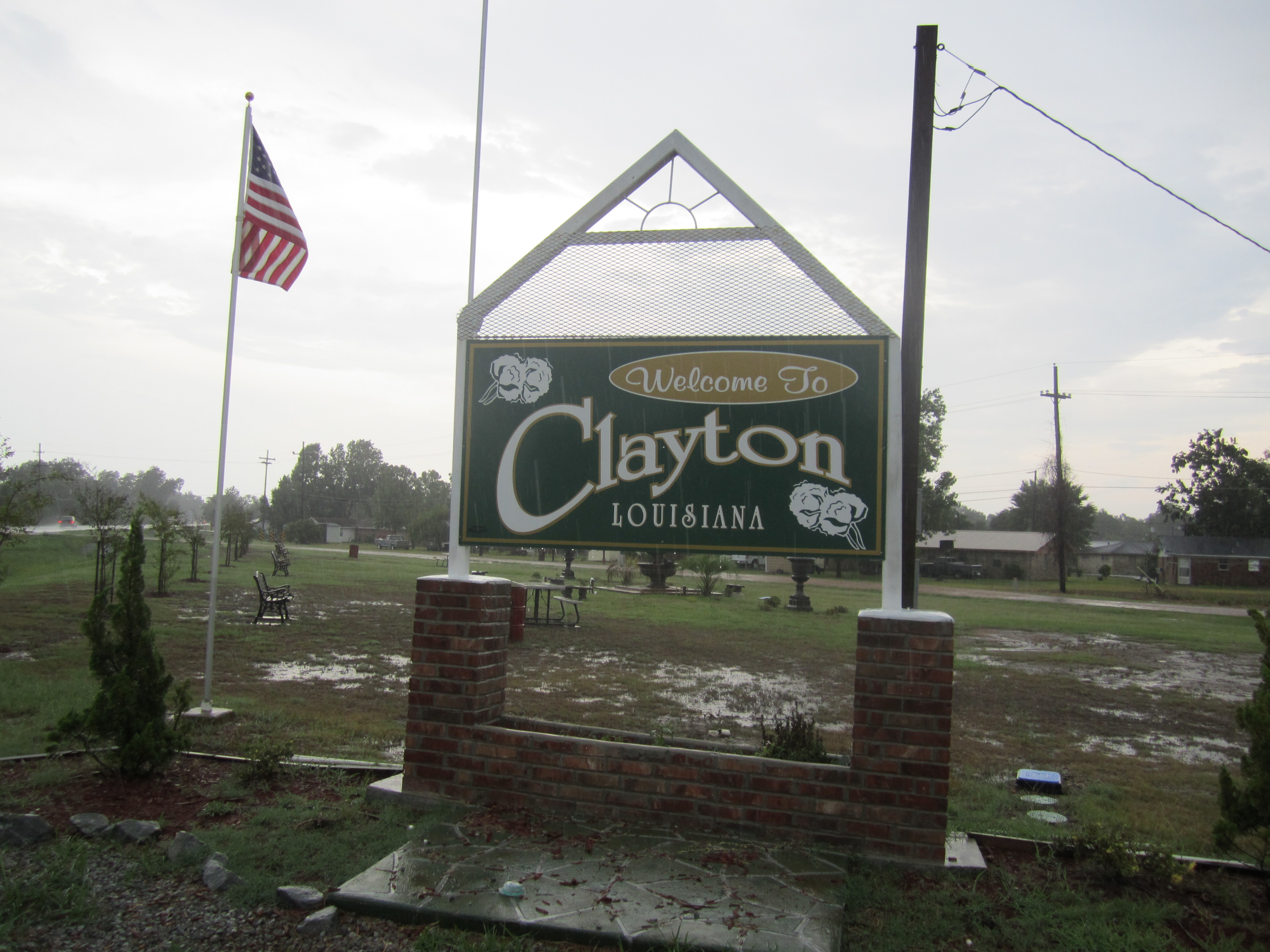 I took photo with Canon camera in Clayton, LA.